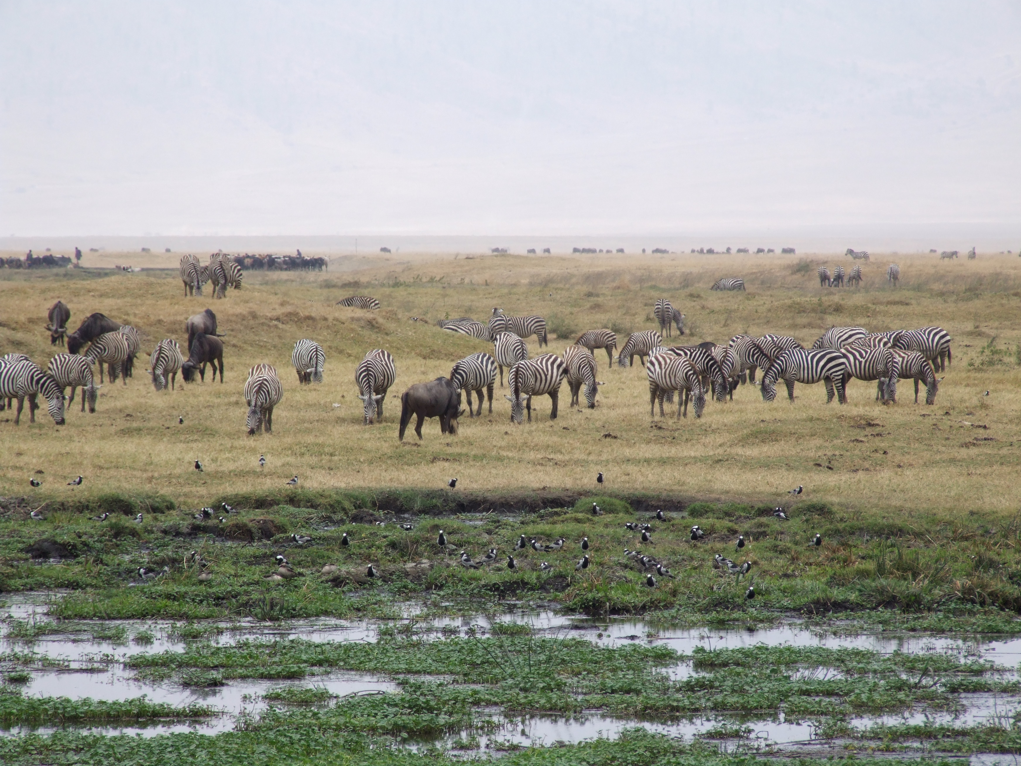 Wildlife in Ngorongoro